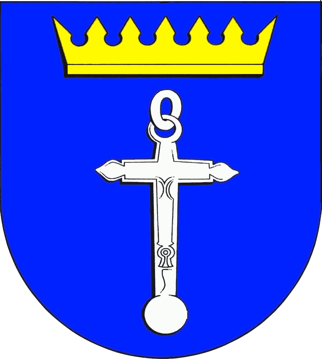 Coat of arms of the municipality Kronsgaard in Schleswig-Holstein, Germany.